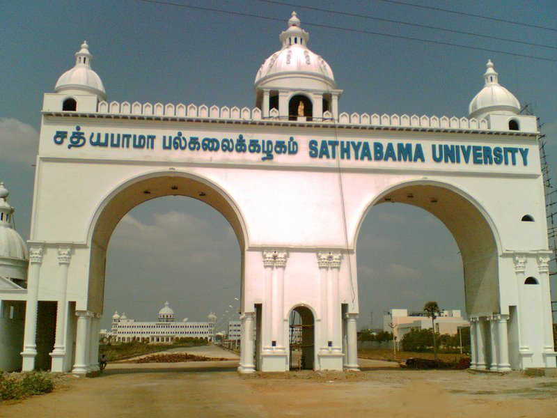 Sathyabama University Main Gate